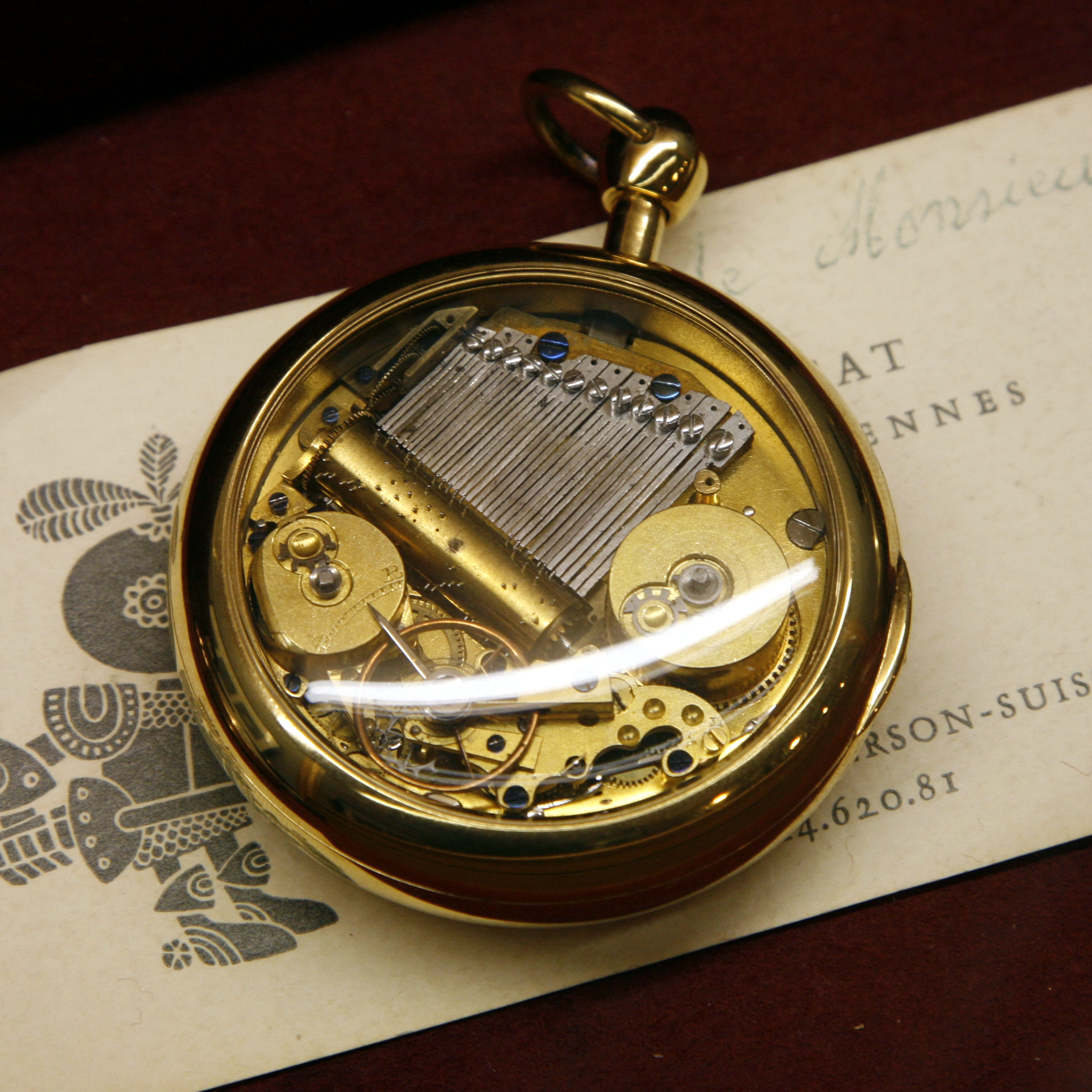 Musée Baud